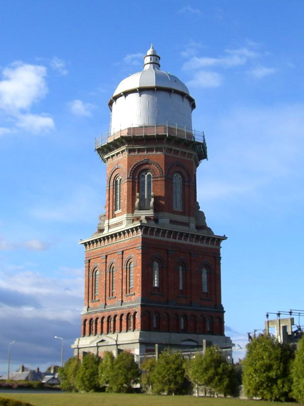 An Invercargill Icon - Watertower